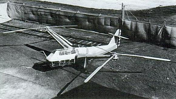 Top view of the Platt-LePage XR-1, the first helicopter to be formally acquired by the U.S. Army Air Forces.